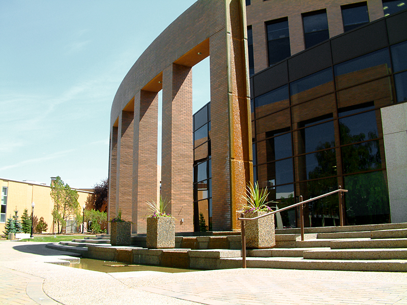 The Lethbridge City Hall in Lethbridge, Alberta, in July of 2003.